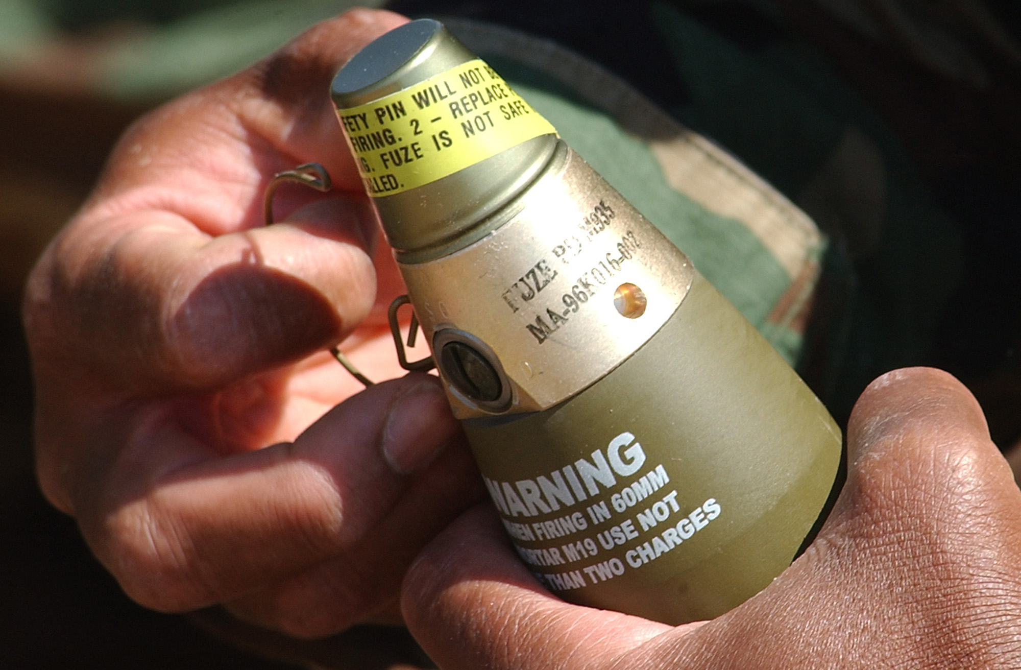 Camp Roberts, Calif. (Sept. 27, 2003) -- A member of Naval Special Warfare Group One, Reserve Detachment 219, pulls a safety pin on a mortar before passing it to his gunner who will load and fire the weapon at a selected target during a training exercise held at Camp Roberts National Guard Base near Santa Maria, Calif. The detachment is conducting weekend drills to improve their skills in heavy weapons and field craft, to better support forward deployed units. Naval Special Warfare Group One, Reserve Detachment 219, homeported in Port Hueneme, Calif., is a Naval Reserve combat support detachment, which provides support to active duty Naval Special Warfare commands while forward deployed. U.S. Navy photo by Photographer’s Mate 1st Class Arlo K. Abrahamson. (RELEASED)